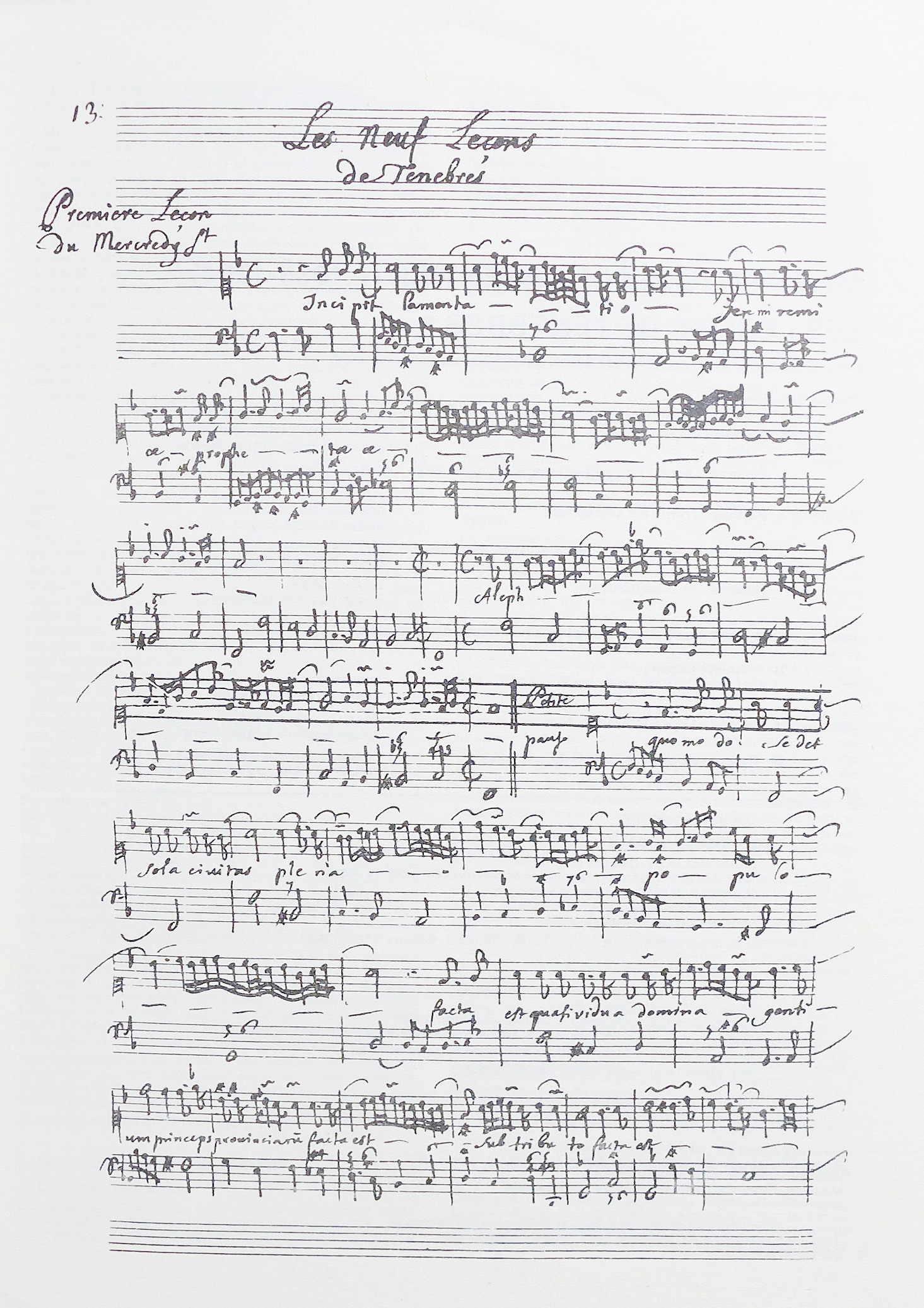 Sheet Music Lecon Tenebre No.9 by Marc-Antoine Charpentier